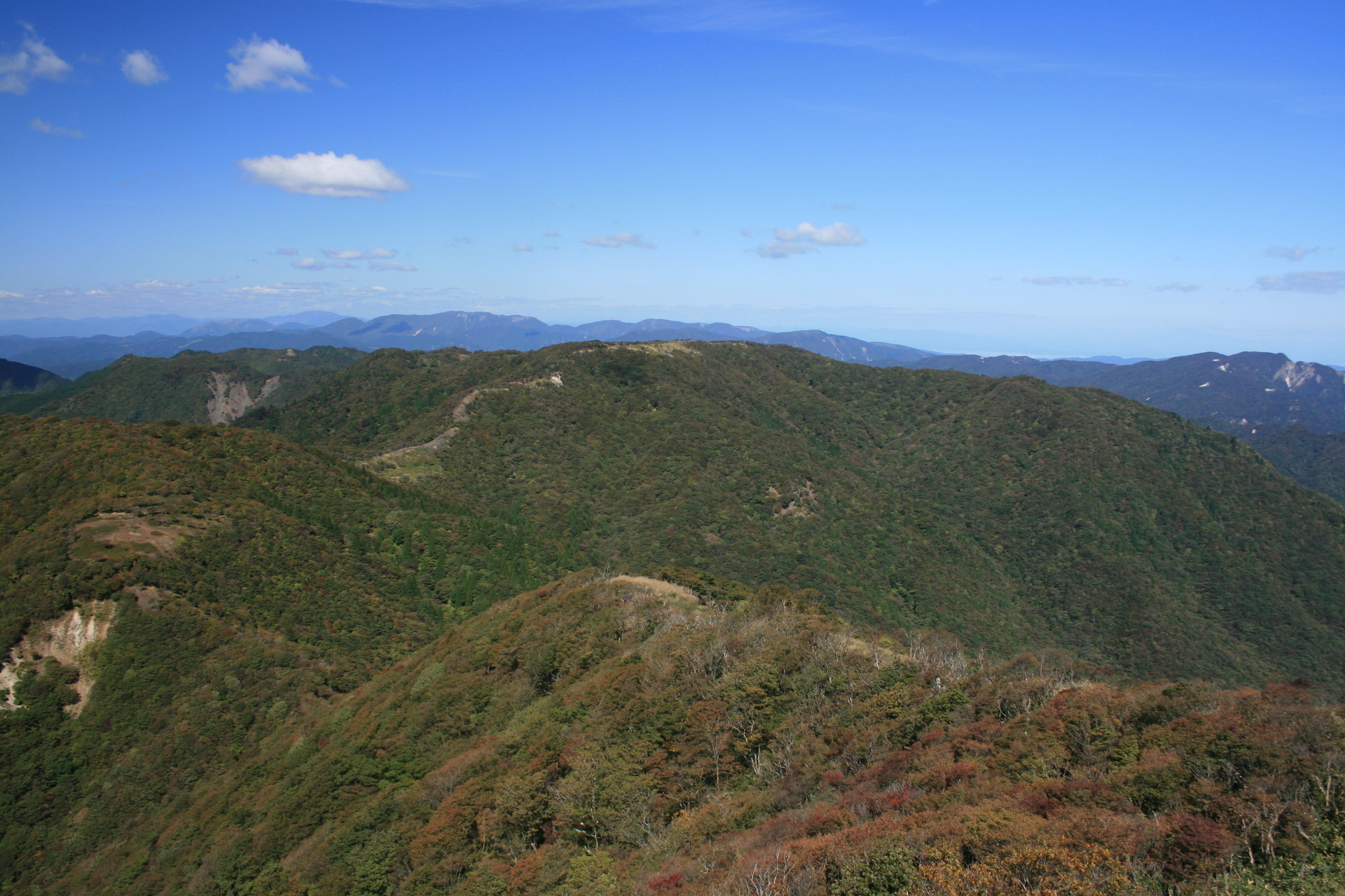 Mount Ibune from Mount Amagoi, of Suzuka Mountains, Japan.